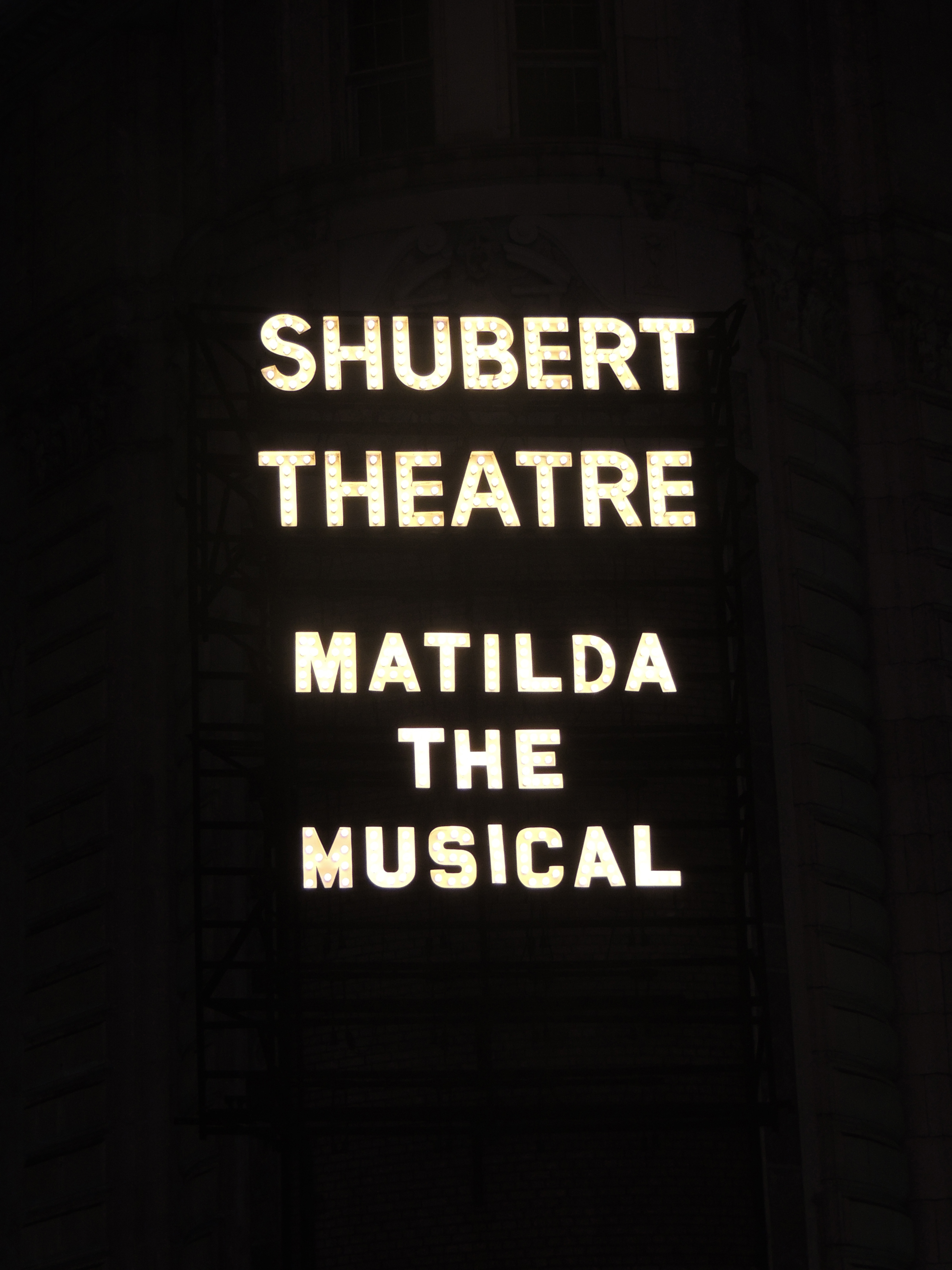 Matilda sign on Shubert Theatre at night